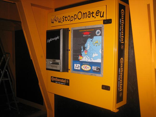 StoppOmat Housing. It's shows the deivce.